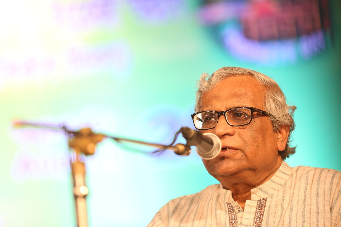 Professor Dr. Anupam Sen delivered valuable speech at the Holy program of Prophet's Day